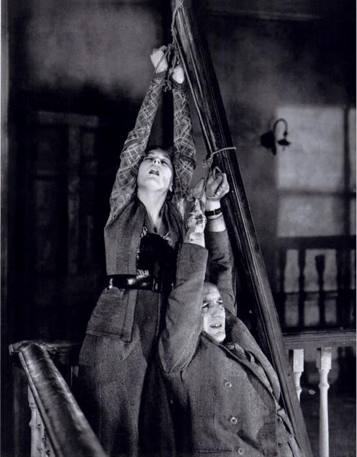 Anne Grey & John Stuart still of the 1932 film The Lodger A Story of the London Fog, director: Alfred Hitchcock